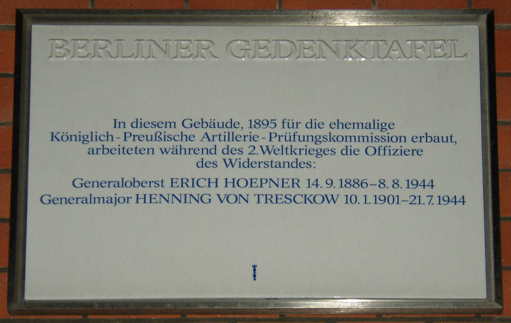 Berlin memorial plaque for Erich Hoepner and Henning von Tresckow in Berlin-Wilmersdorf, Germany "In this building, built in 1895 for the former Royal-Prussian Artillery Testing Commission, worked during WW2 the officers of the Resistance Colonel-General Erich Hoepner and Major-General Henning von Tresckow"